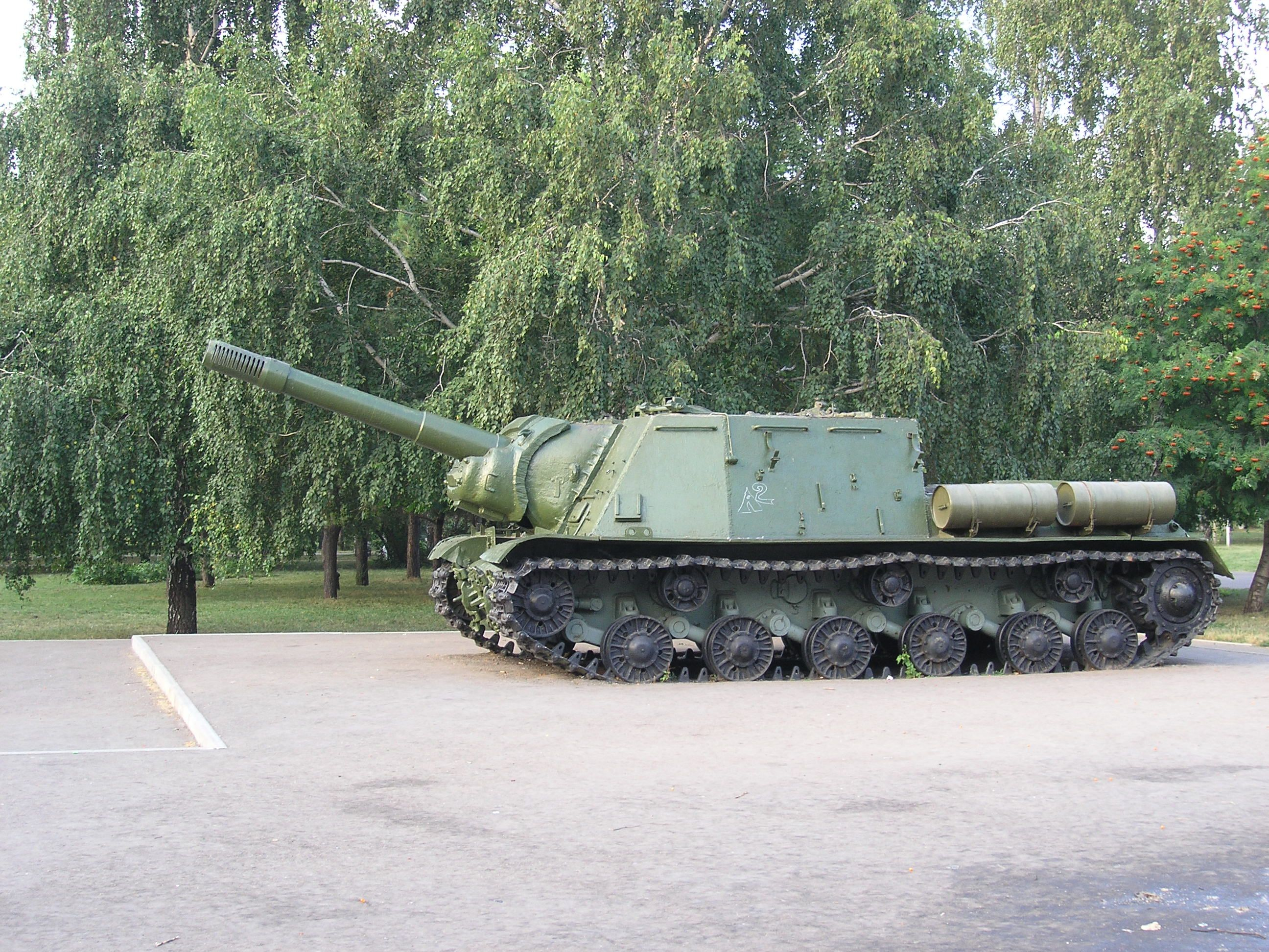 SAU ISU 152 in Park of Victory, Togliatti, Russia